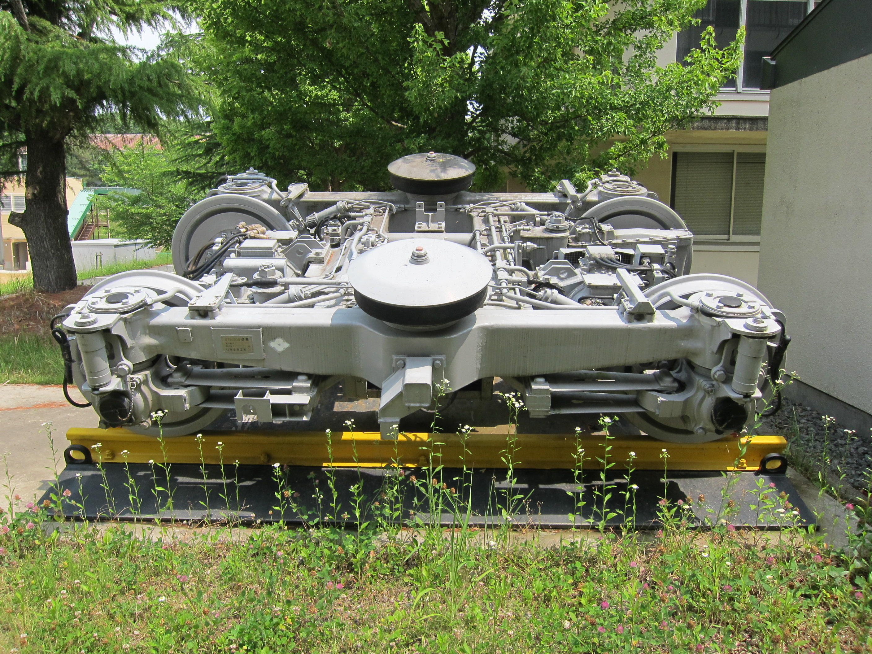 Sumitomo DT9035B bogie of the former JR East experimental "STAR21" shinkansen trainset preserved at Nara National College of Technology in Japan